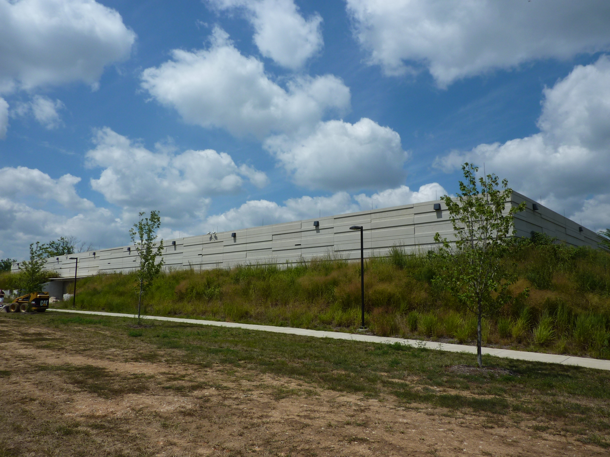 Indiana University Data Center, a bunker-like building located off East 10th St, near the former Wrubel Computer Center, about a mile east of Herman B Wells Library.